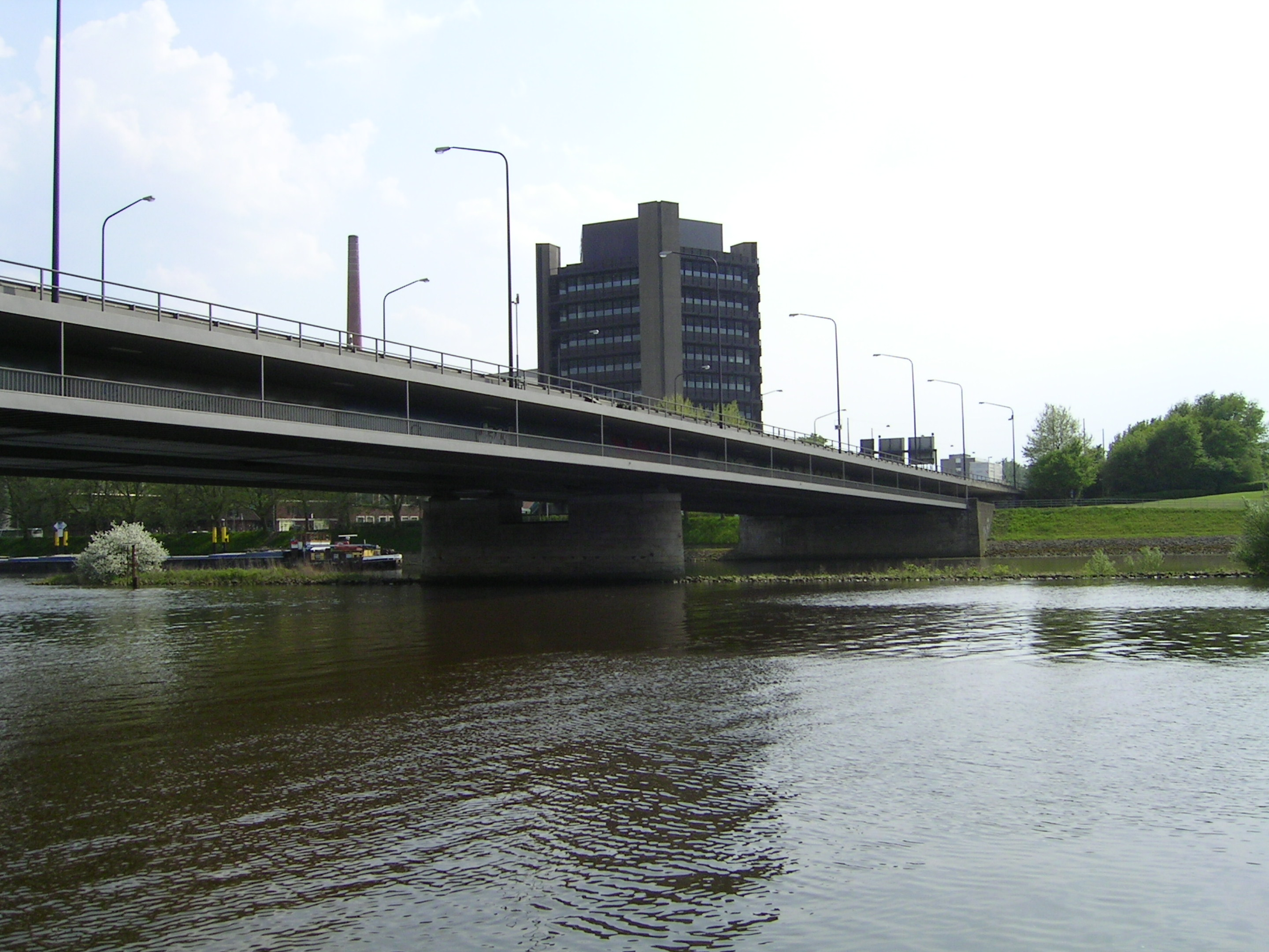 Weser River in Bremen city